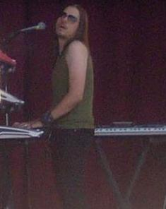 Author: Omar Otiniano Nationality: Peruvian Photo taken At: Marysville, CA